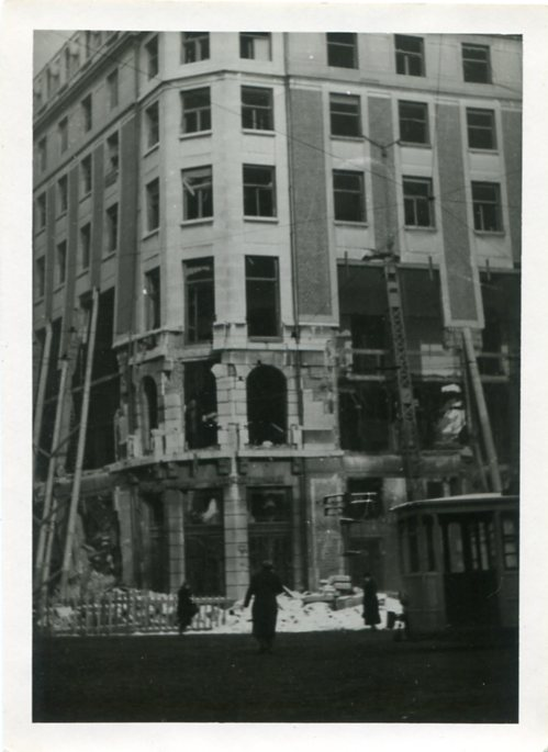 Snapshot from across the street looking at the buzz bomb damage to the Torengebouw van Antwerpen (or “Boerentoren”), the first skyscraper in Europe, in Antwerp, Belgium, during World War II. Photograph taken or collected by William L. Flournoy while he was stationed there with the 280th Port Company, U.S. Army [circa 1945]. From William L. Flournoy Sr. Papers, WWII 109, WWII Papers, Military Collection, State Archives of North Carolina, Raleigh, N.C.